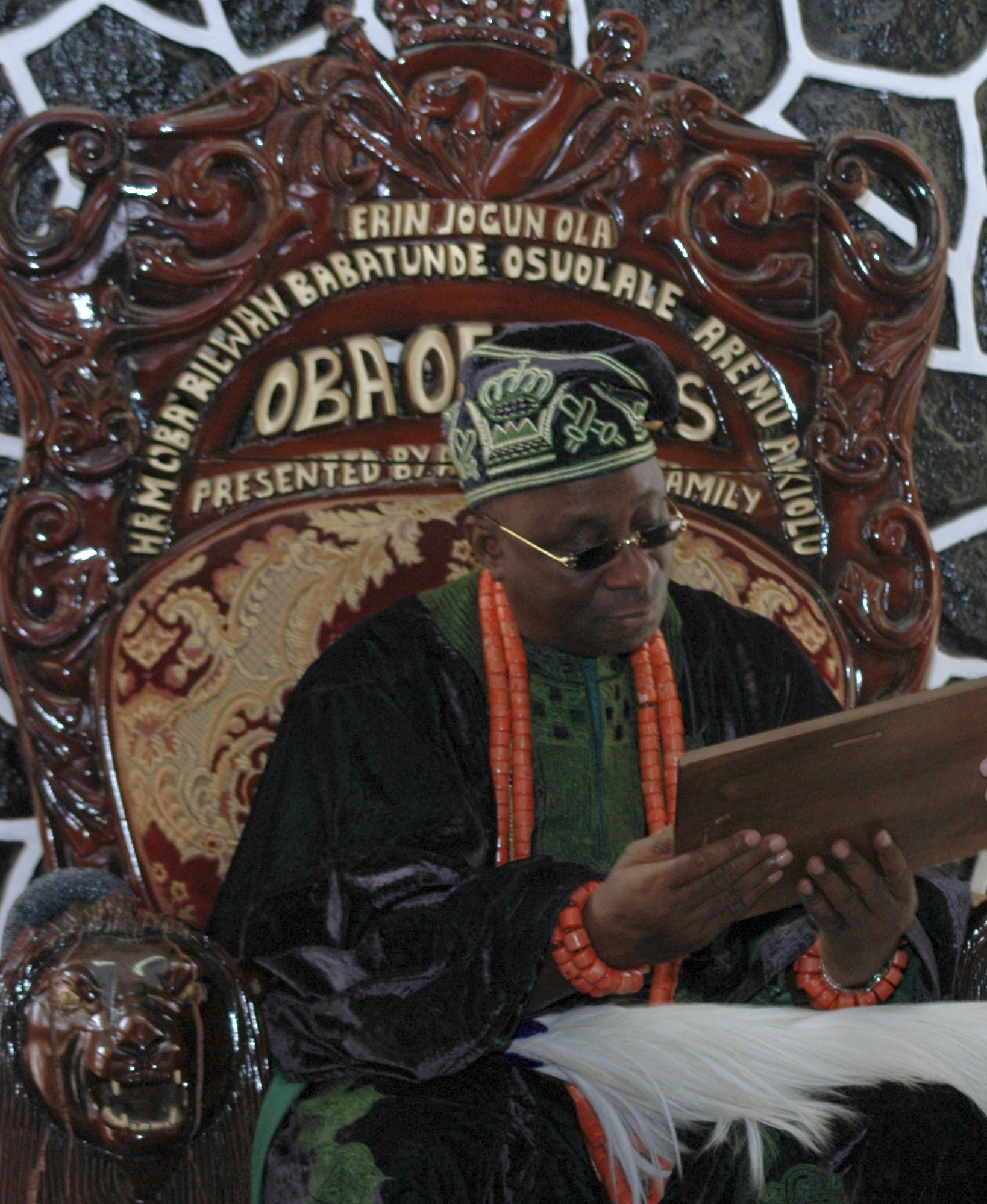 Crop of: 060602-N-8637R-010 Lagos, Nigeria (June 2, 2006) - Commanding Officer USS Barry (DDG 52), Cmdr. Jeffrey Wolstenholme, presents the Oba of Nigeria, with a ship's plaque during the ship's visit. The Oba is a spiritual leader in Nigerian culture with the respect of royalty. While in port, USS Barry will participate in events celebrating the 50th anniversary of the Nigerian Navy. The port visit and participation in the "Golden Jubilee” is the latest in a series of engagements involving several Gulf of Guinea nations designed to strengthen enduring and emerging partnerships and support maritime safety and security measures. U.S. Navy photo by Journalist 1st Class Kurt Riggs